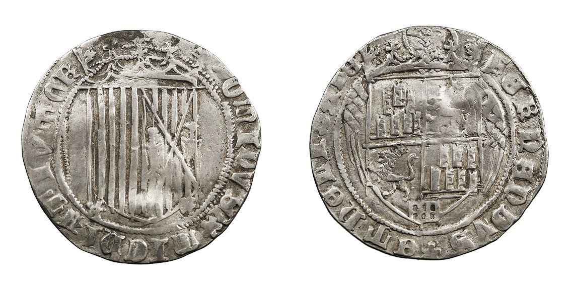 One Spanish real, in silver, undated but earlier than the 1497 decree. Minted in Segovia. Legends: observse “FERNANDVS*ETHELISABET” i.e. “Ferdinand and Isabella”; reverse “DOMINVS*MICHIADIVTOR”, short form of verse 6 of Psalm 117 “Dominus michi adiutor et non timebo quid faciat michi homo” or perhaps of verse 7 of the same Psalm “Dominus mihi adiutor: et ego despiciam inimicos meos”.